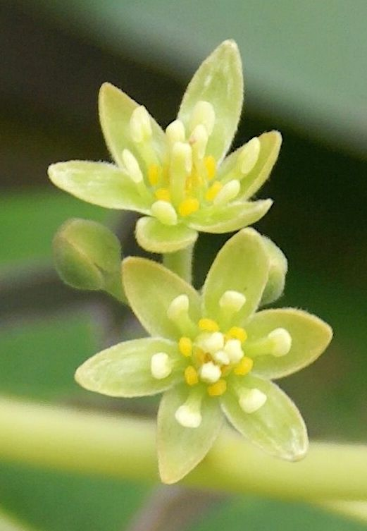 Flowers of an avocado tree (Persea americana)